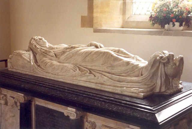 Effigy in the Church of St Peter and St Paul, Exton, Rutland, to Anne Chichester (d.1627) (Countess of Elgin), daughter of Sir Robert Chichester (1578-1627), Knight of the Bath, lord of the manor of Raleigh in the parish of Pilton in Devon, Custos Rotulorum and Deputy Lieutenant of Devon, and first wife of Thomas Bruce, 1st Earl of Elgin (Lord Bruce of Kinlosse) of Houghton House in the parish of Maulden in Bedfordshire, and grand-daughter of John Harington, 1st Baron Harington (d. 1613) of Exton. She died in 1627, the day after having given birth to Robert Bruce, 2nd Earl of Elgin, 1st Earl of Ailesbury (d.1685). At her feet is shown the crest of Chichester: A heron wings elevated with an eel in its beak. Another effigy of her survives, in kneeling posture, on the monument to her father in Pilton Church, Devon. On either side of the inscribed black panel below are two heraldic oval cartouches sculpted in white marble, the left one showing the arms of Bruce, the right one the arms of Harington impaling Kelloway/Keilway, (see image[1]) representing Anne's maternal grandfather John Harington, 1st Baron Harington (1539/40 – 23 August 1613) of Exton, who married Anne Keilway, daughter of Robert Keilway, Surveyor of the Court of Wards and Liveries. The magnificent and sumptuous monument of Robert Keilway (erected by Lord Harington and his wife Anne Keilway) survives in Exton Church. Uploader: "Exton church has many fine monuments, and this was my favourite. She looks so peaceful lying here"